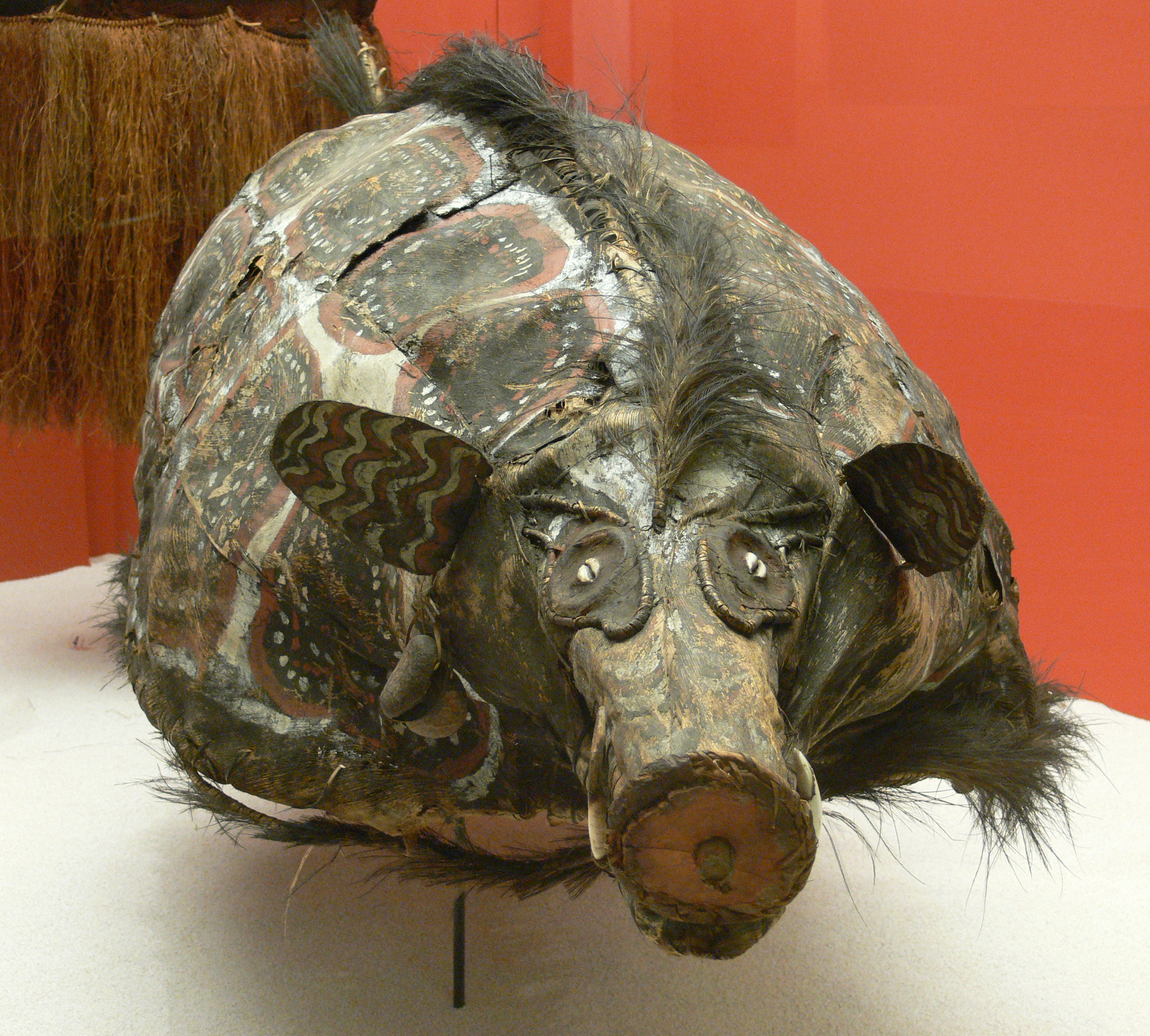 Mask depicting a pig. Middle Sepik, New Guinea. Ethnological Museum, Berlin-Dahlem (Thurnwald collection, acquired in 1914. Rattan, palm leaf sheaths, and cassowary feathers)